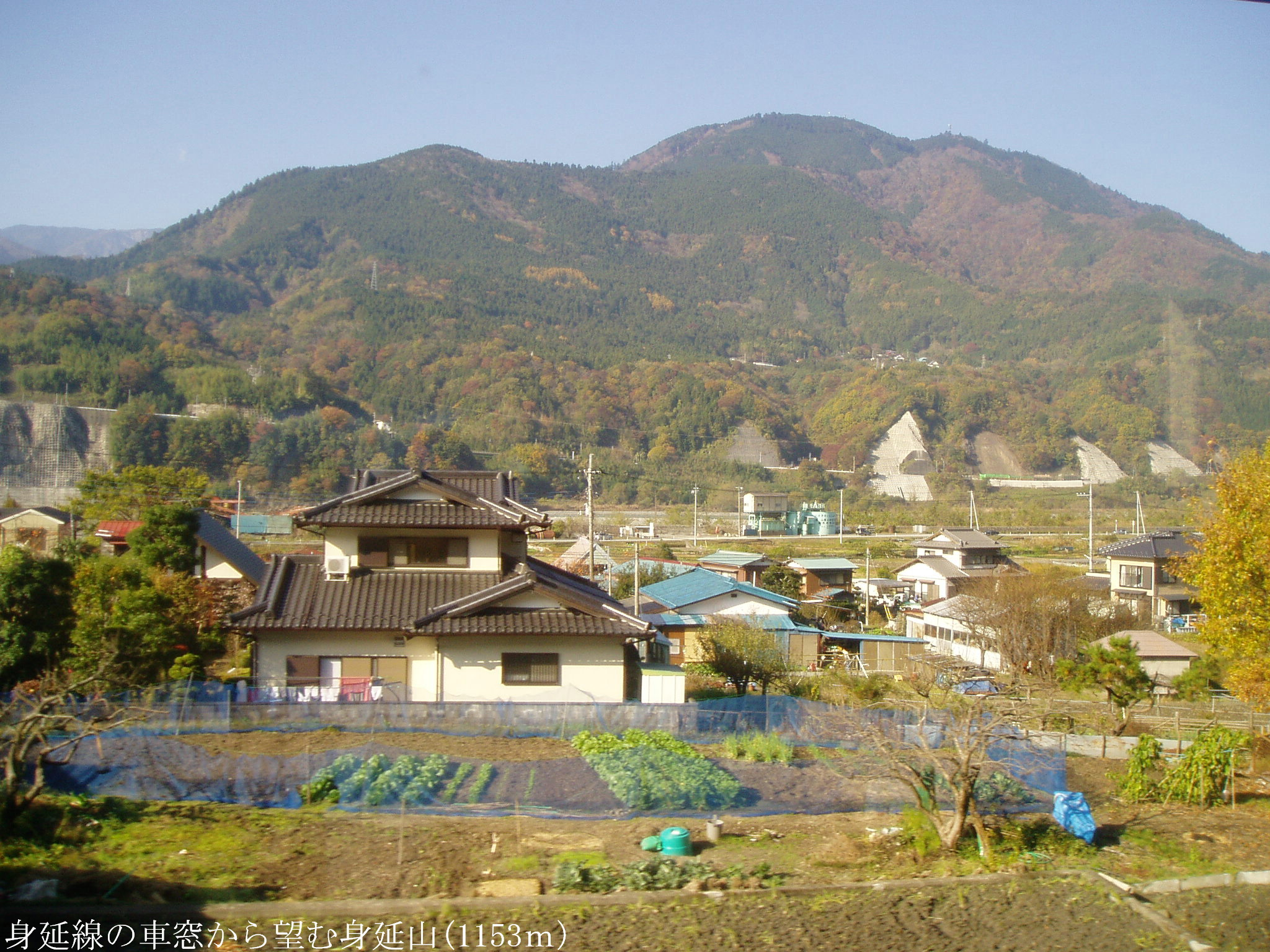 Mount Minobu as seen from the east in the border between Minobu and Hayakawa, Yamanashi Prefecture, Japan.